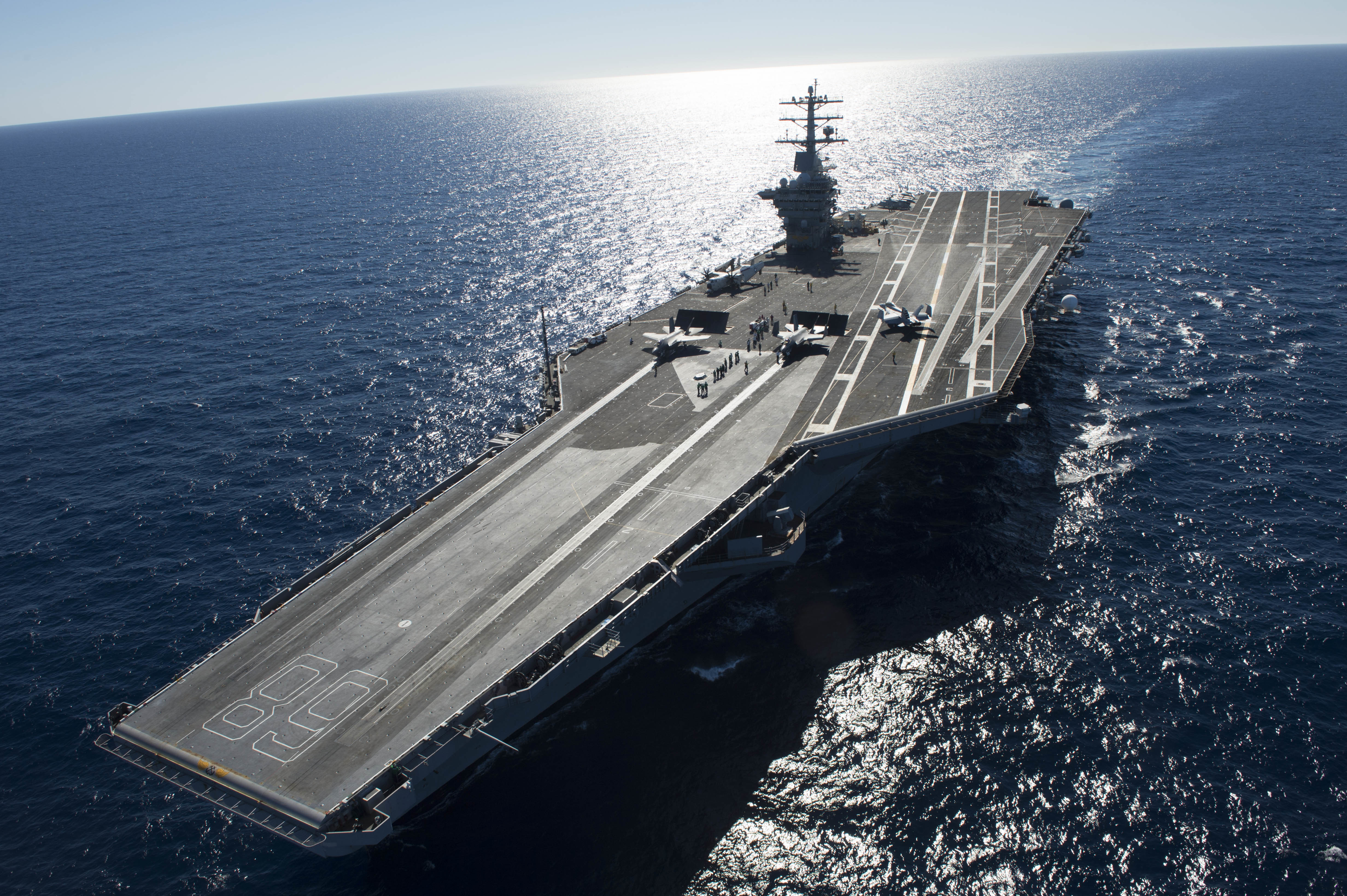 Two F-35C Lightning II carrier variant joint strike fighters conduct the first catapult launches aboard the aircraft carrier USS Nimitz (CVN 68). The F-35 Lightning II Pax River Integrated Test Force from Air Test and Evaluation Squadron (VX) 23 is conducting initial at-sea trials aboard Nimitz. (U.S. Navy photo by Mass Communication Specialist 2nd Class Antonio Turretto Ramos/Released)